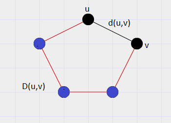 The detour distance between two adjacent vertices in a cycle of n vertices is n-1.